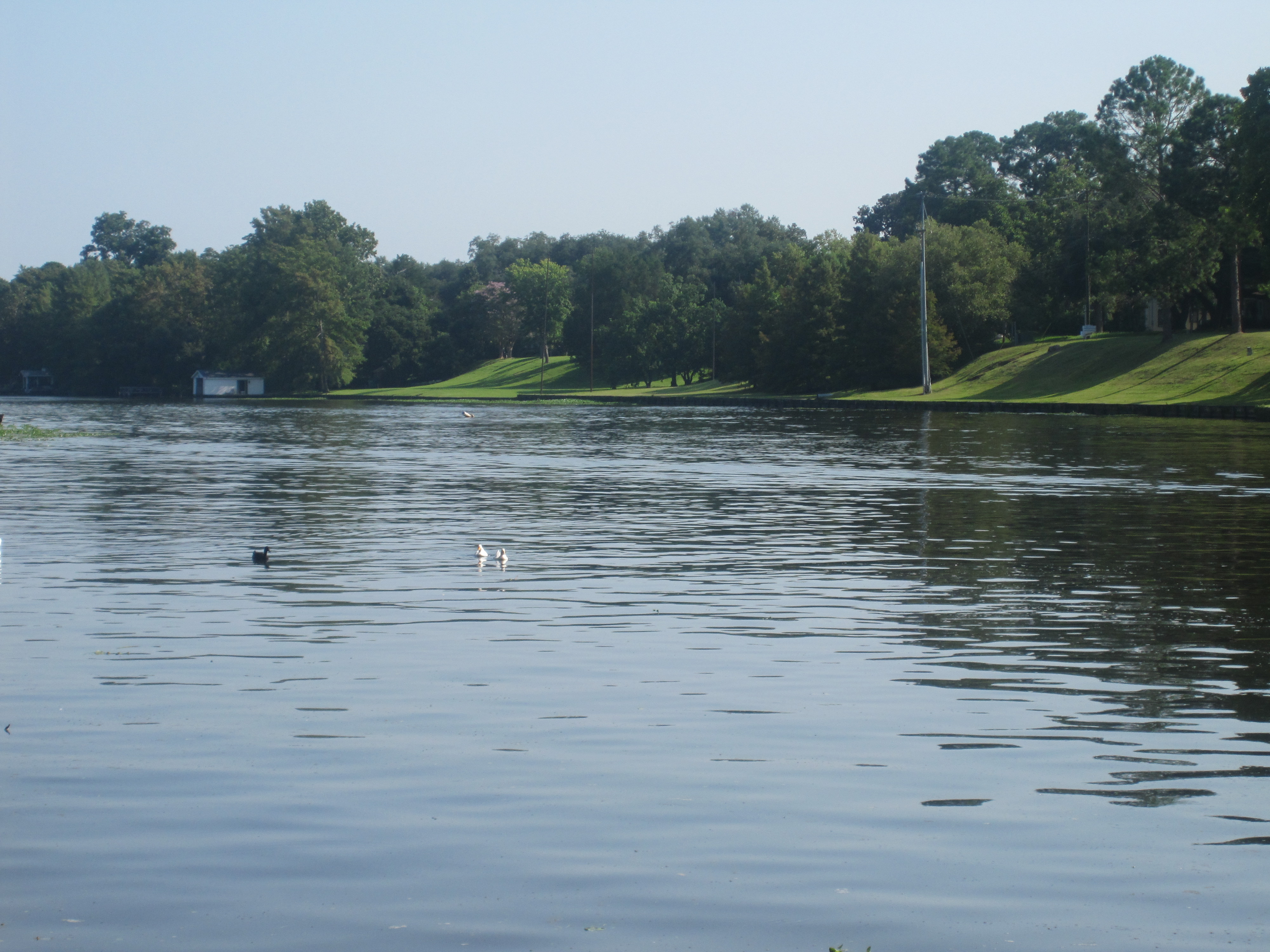 Cane River Lake — shoreline at Natchitoches, in the Cane River National Heritage Area, Louisiana. Formed in the former course of the Red River of the South.